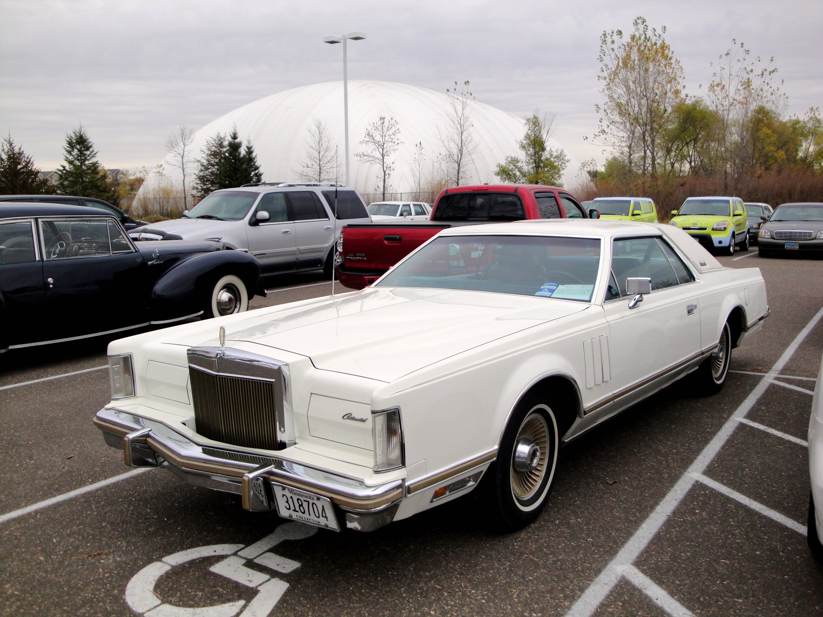 A front 3/4 view of a 1979 Continental Mark V Collectors Series two-door coupe.